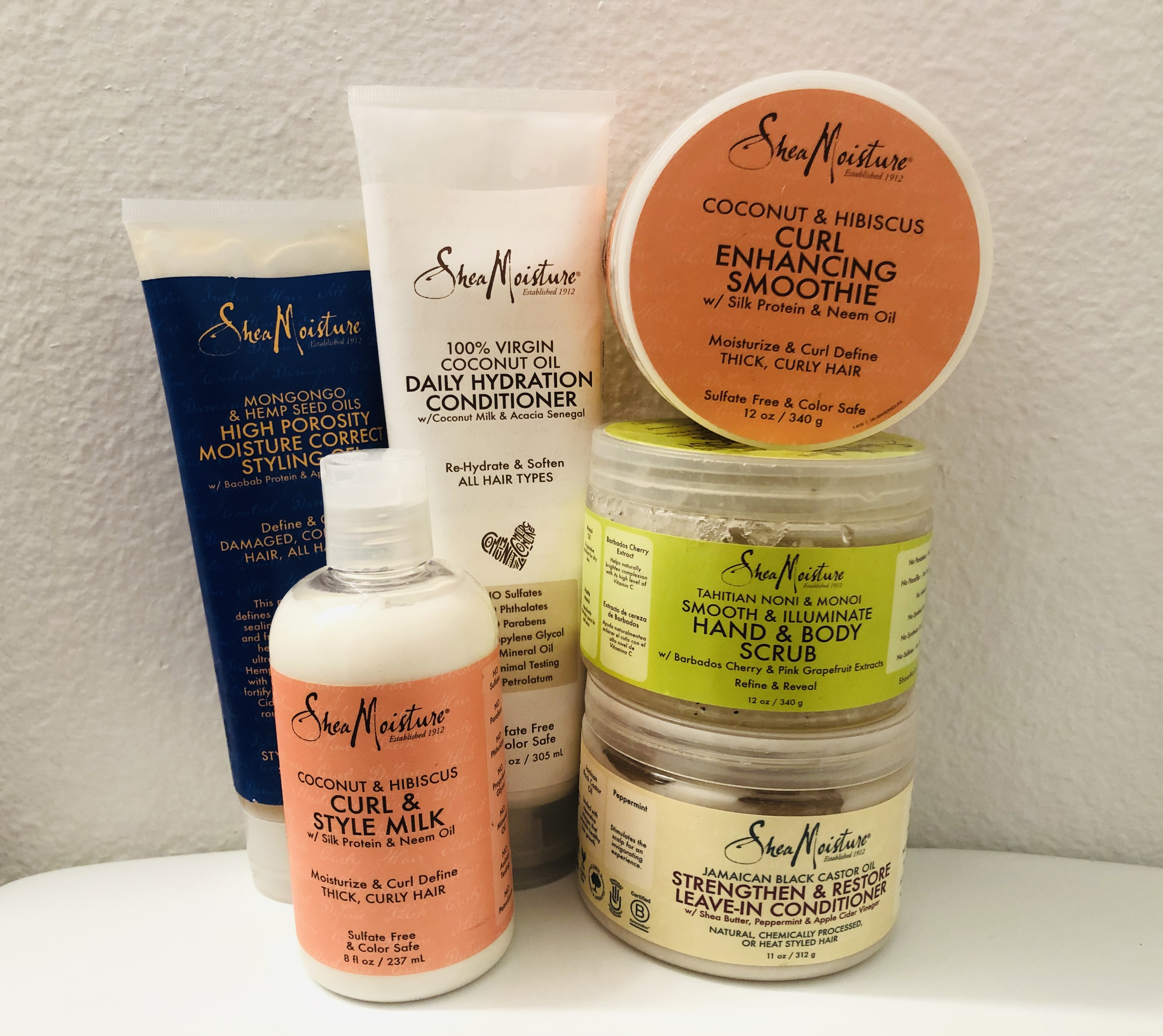 Different varieties of SheaMoisture products.